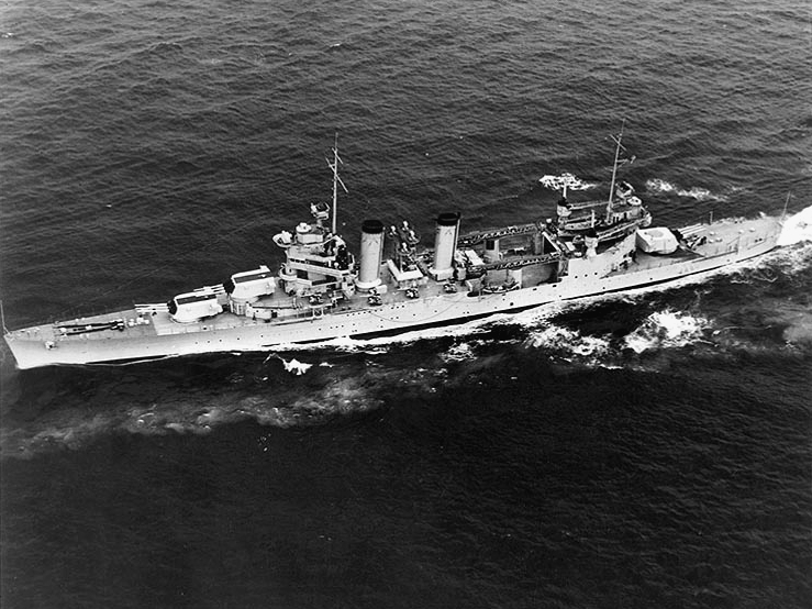 The U.S. Navy heavy cruiser USS Quincy (CA-39) underway on 1 May 1940, as seen from a Utility Squadron 1 (VU-1) aircraft. Note the identification markings on her turret tops: longitudinal stripes on the forward turrets and a circle on the after one.